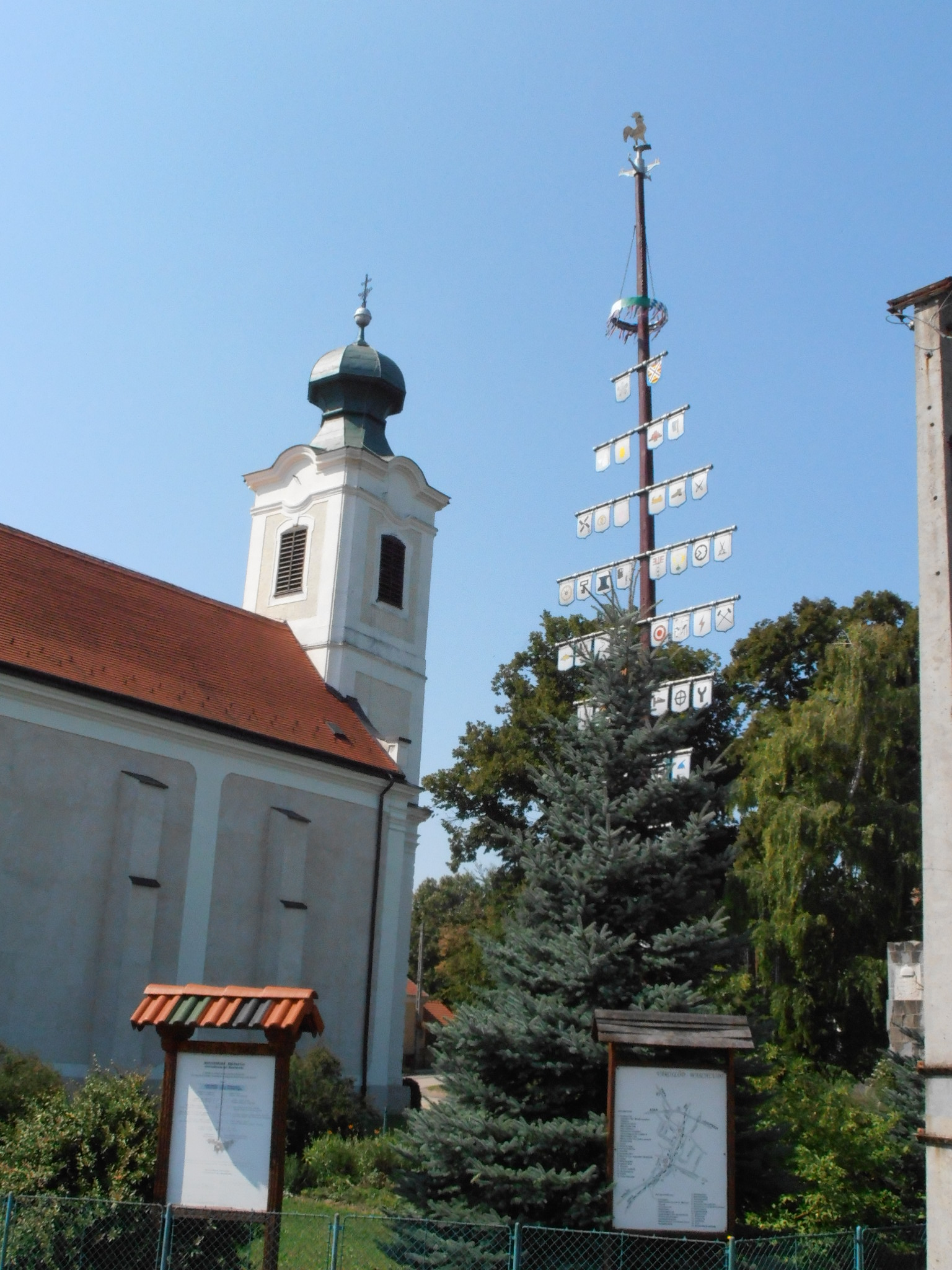 Church in Városlőd, Hungary Városlőd főtere